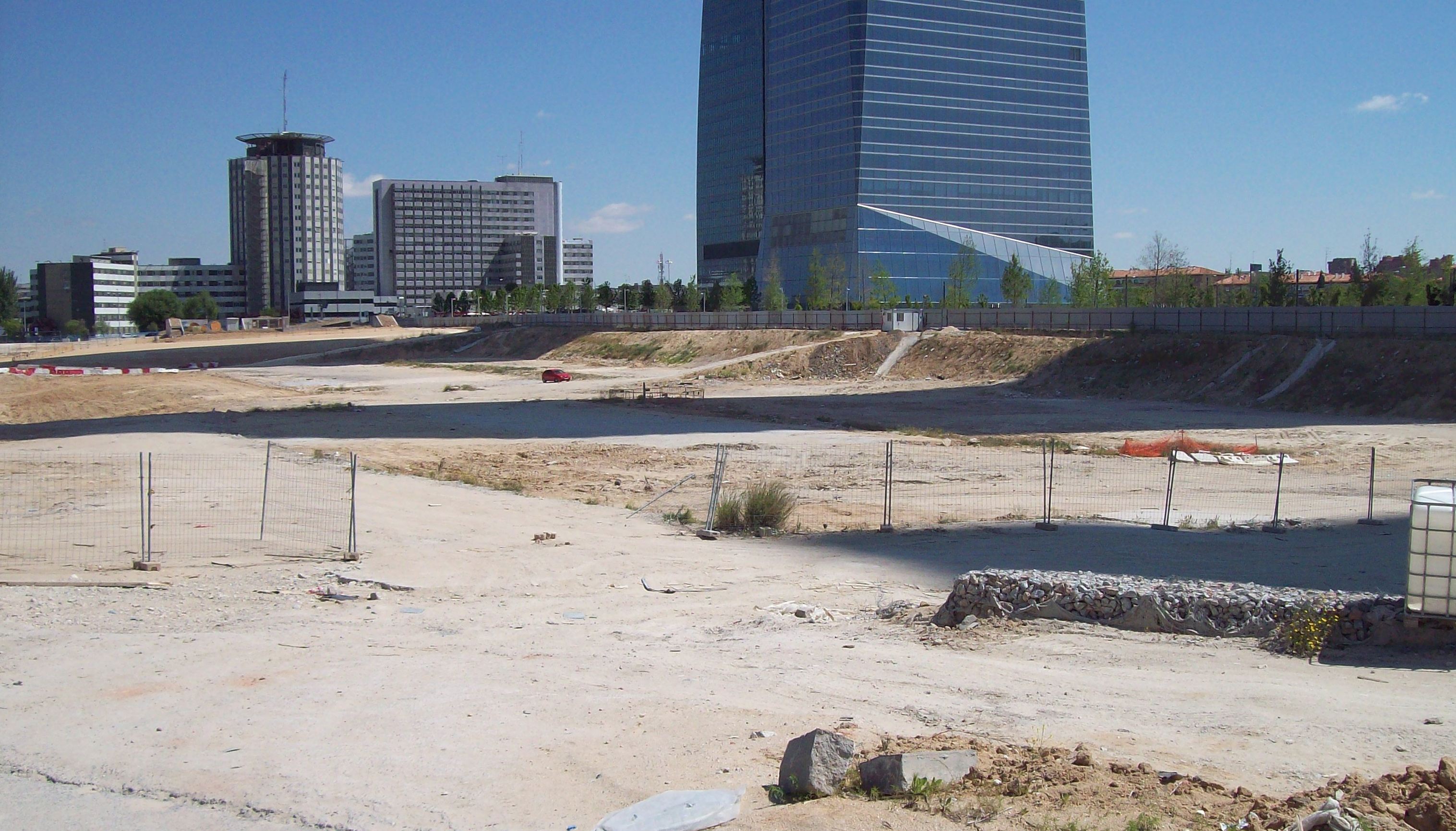 Plot of land of the International Convention Center of the City of Madrid (CICCM), beside Cuatro Torres Business Area (Madrid, Spain).